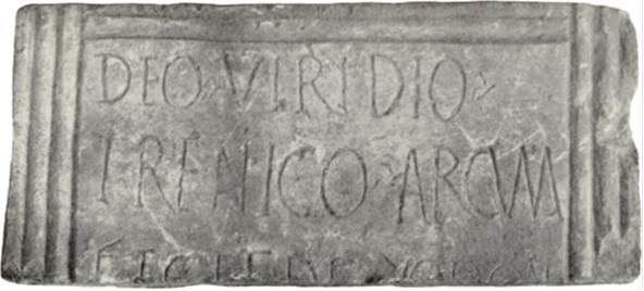 Stone found in 1961 in a grave. It was reused from an ancient archway.